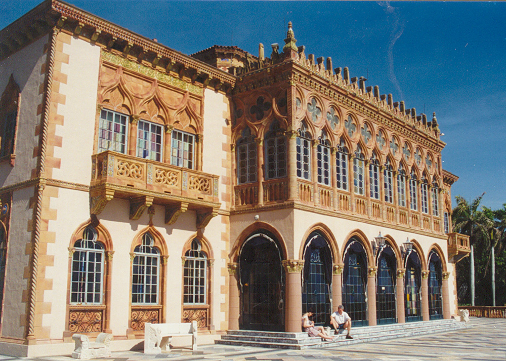 The Sarasota Bay terrace of Ca d'Zan, John Ringling's winter residence in Sarasota, Florida. My friends Sonke and Ulla are lounging on th steps.